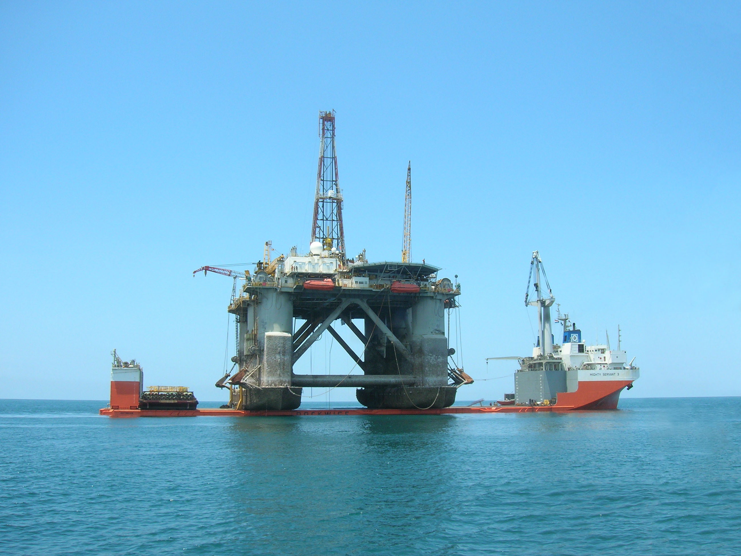 Mighty Servant 3 carrying her last cargo, the semi-submersible drilling rig GSF Aleutian Key. Information about Mighty Servant 3 may be found at IMO 8130899. A ship can change her name and flag state through time, but the IMO number remains the same through the hull's entire lifetime. Therefore, it's useful to identify a ship through her IMO number.